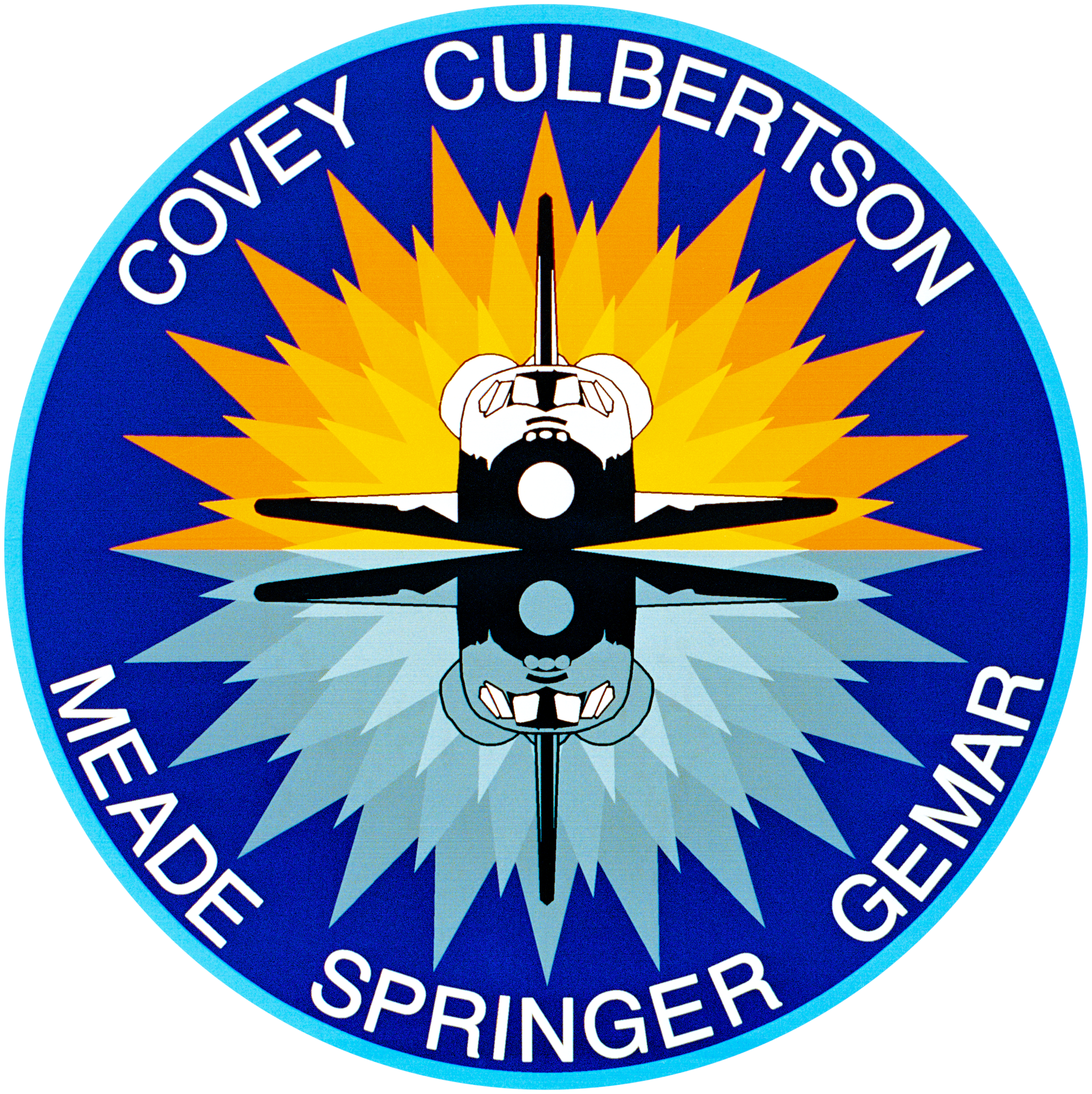 STS-38 Mission Insignia The STS-38 patch was designed to represent and pay tribute to all the men and woman who contribute to the Space Shuttle program. The top orbiter, with the stylistic Orbital Maneuvering System burn, symbolizes the continuing dynamic nature of the Space Shuttle Program. The bottom orbiter, a black and white mirror image, acknowledges the thousands of unheralded individuals who work behind the scenes in support of America's Space Shuttle program. This mirror image symbolizes the importance of their contributions.